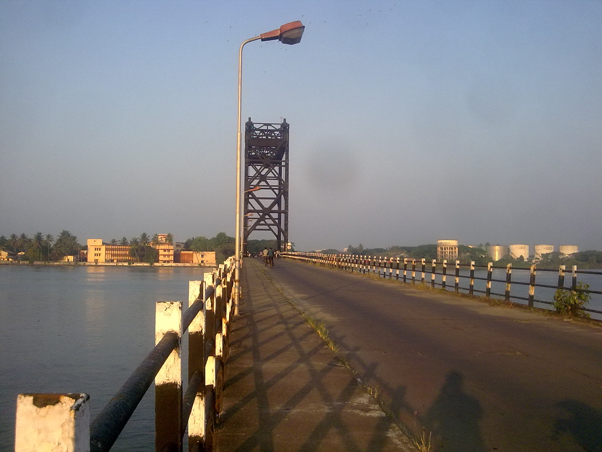 venduruthy bridge